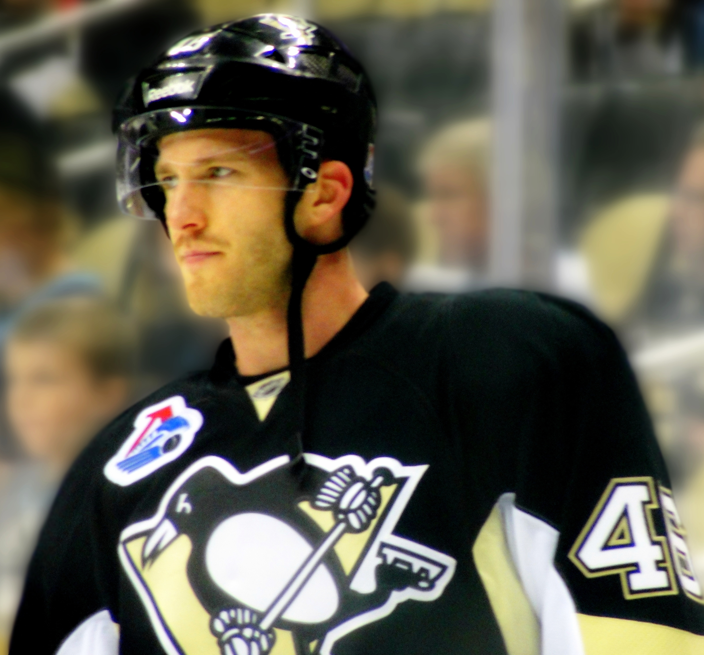 Joe Vitale, Pittsburgh Penguins, October 12, 2011 game vs Washington Capitals at Consol Energy Center in Pittsburgh, PA.